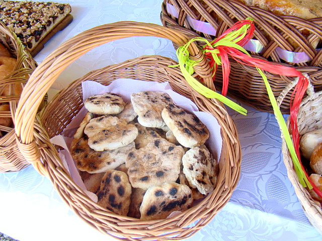 Polish_Flat_Sodabreads_Sanok